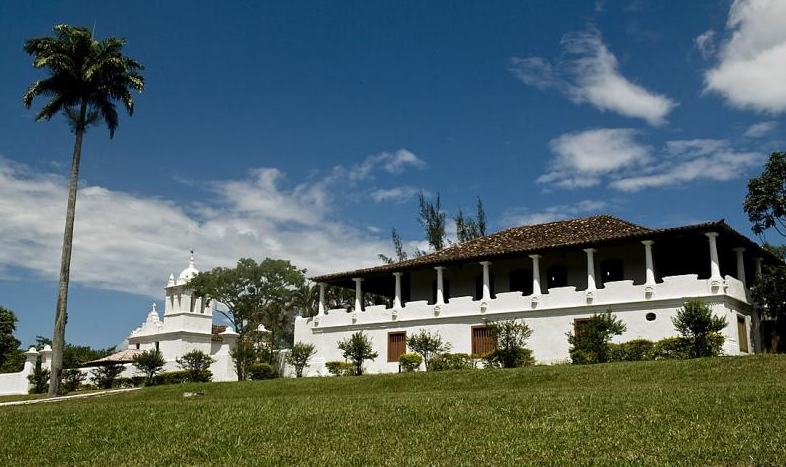 The Fazenda do Colubandê is in the city of São Gonçalo. It was built in 1618, is a landmark in the Brazilian colonial architecture.